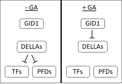 Diagram of the GA signal cascade